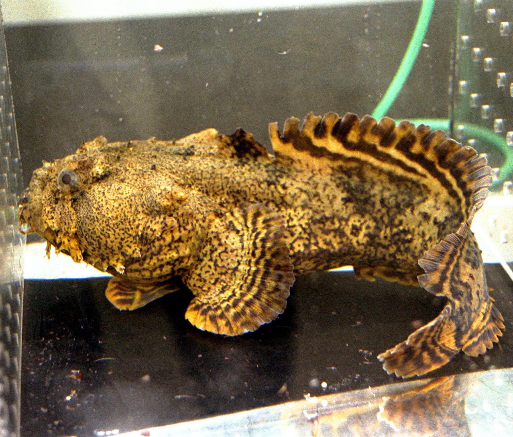 Oyster toadfish (Opsanus tau) shown in its holding tank Rotated and cropped version of File:Opsanus tau.jpg